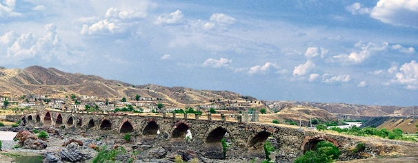 Khudafarin bridge with 15 arches. Jabrayil Rayon, Azerbaijan.